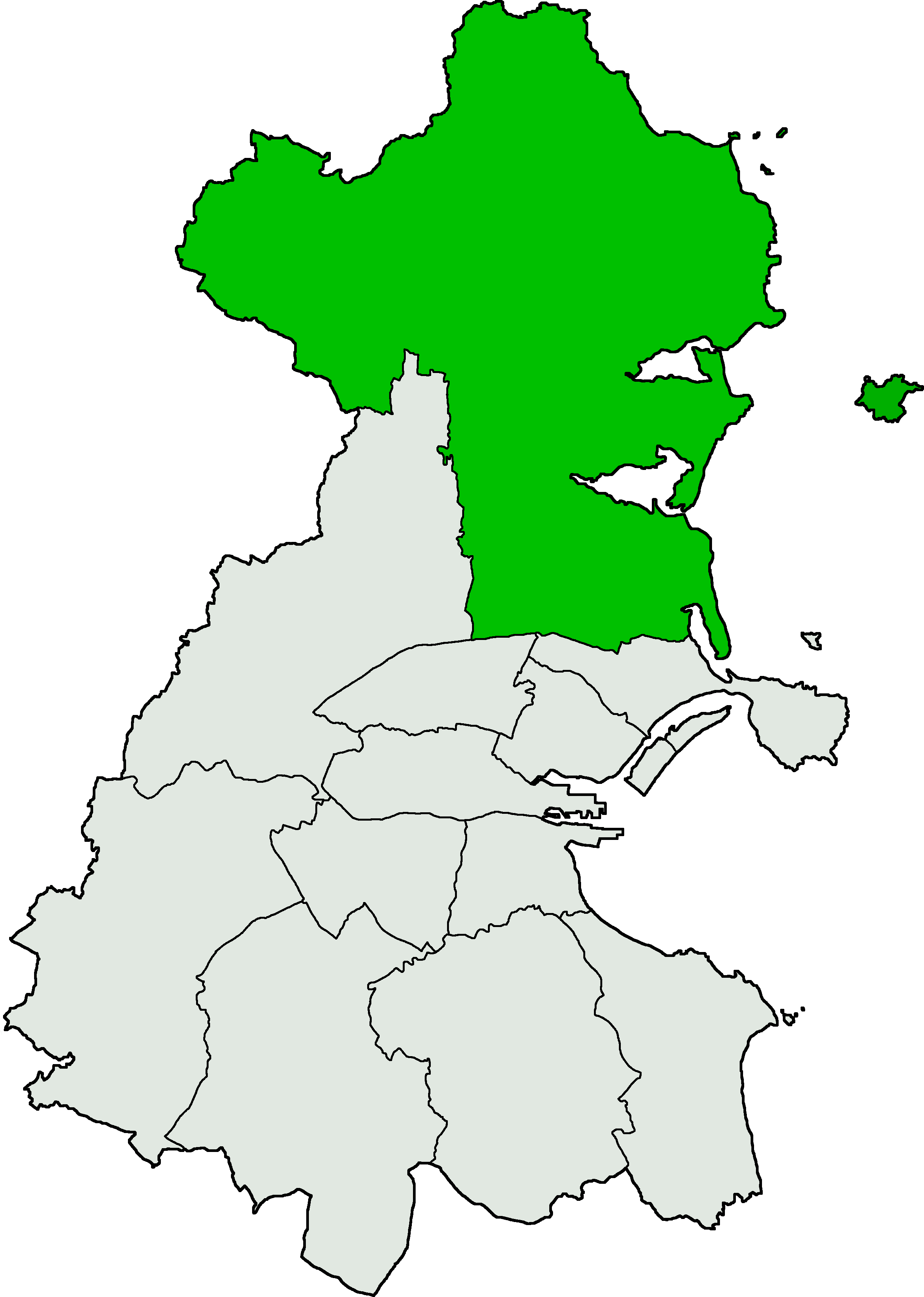 Category:Maps of Dublin